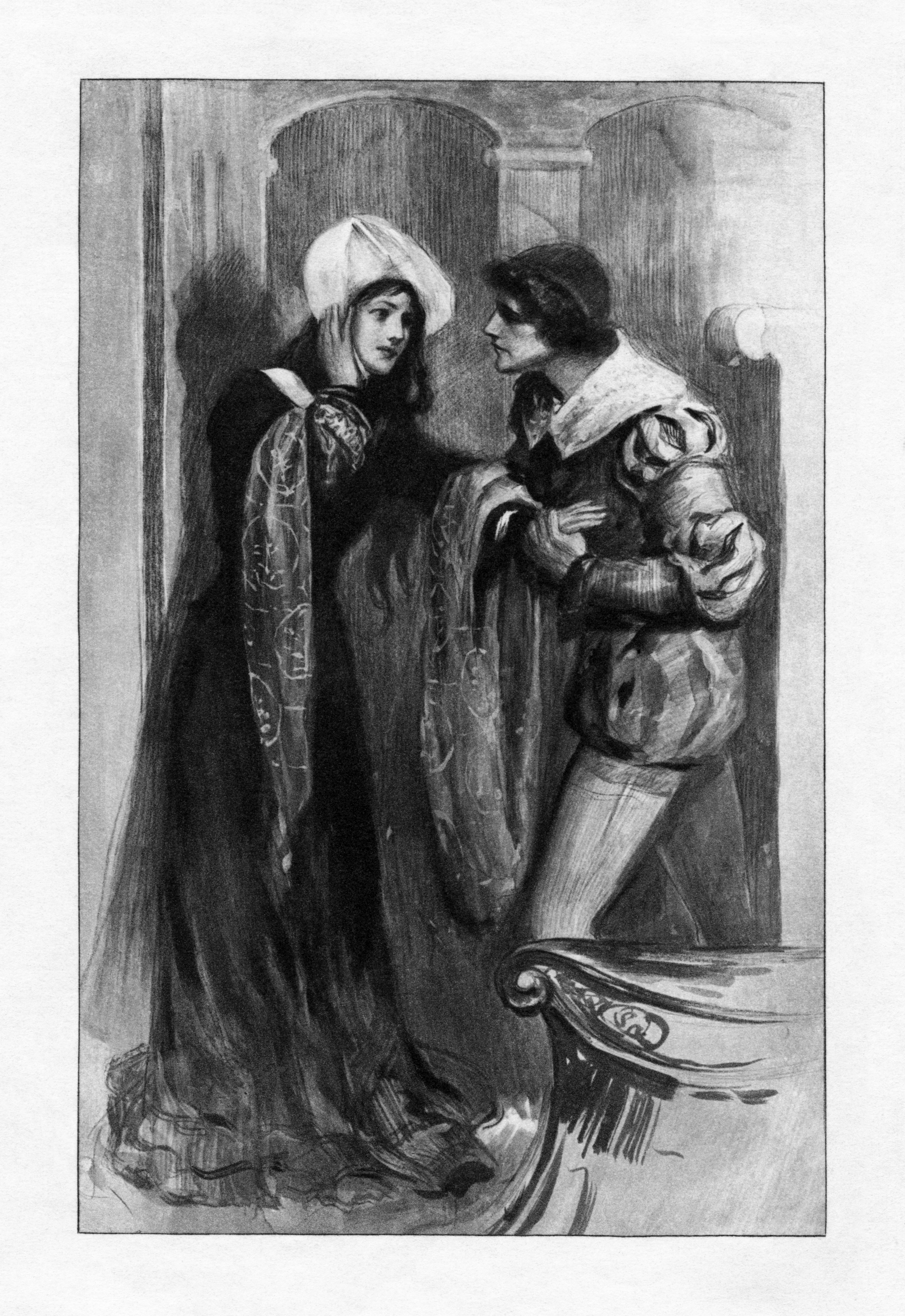 A scene from Oscar Wilde's The Duchess of Padua. Caption: "Alackaday! I am fallen so low in place. I can reward thee only with niggardly thanks."